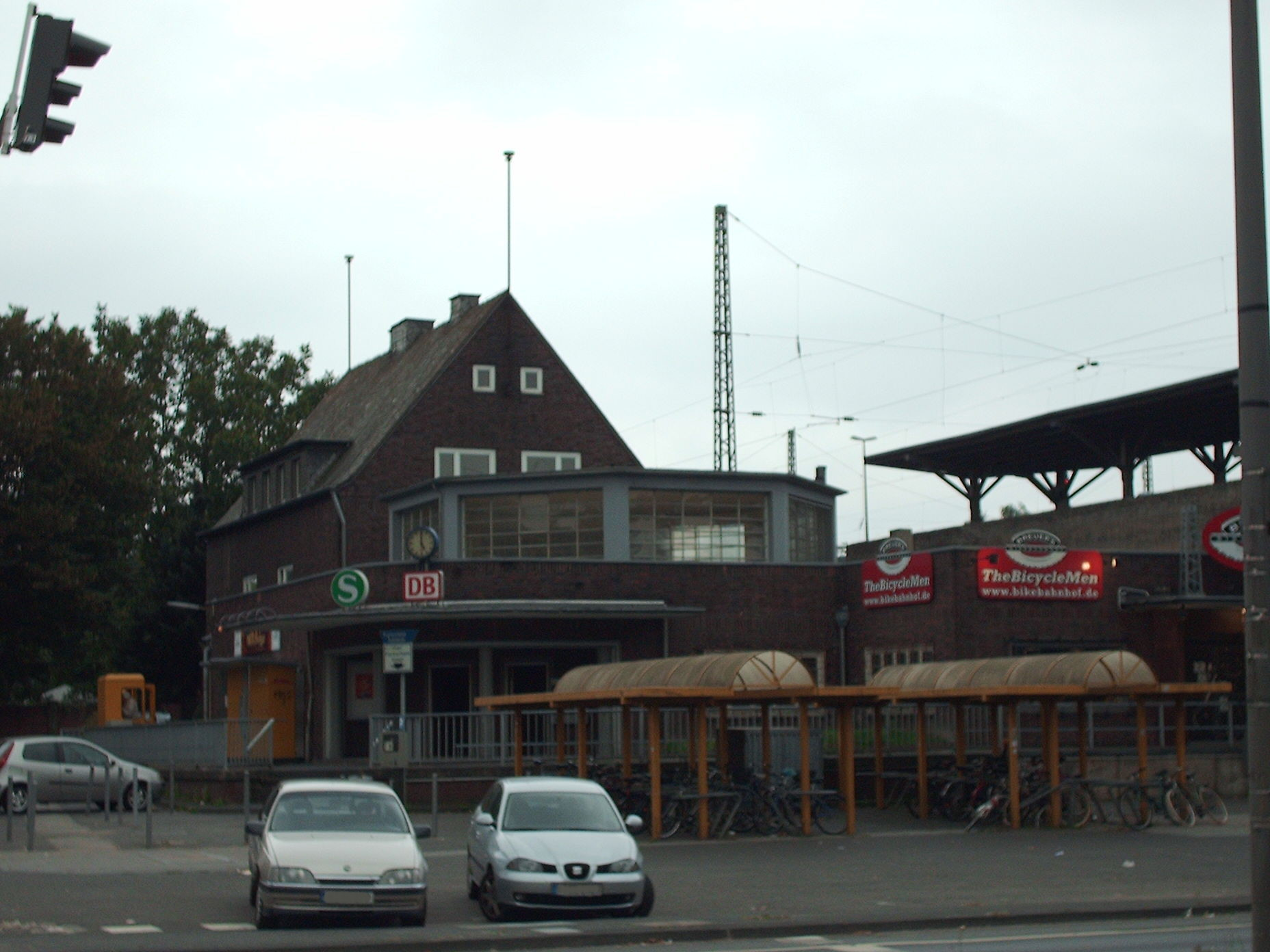 Köln-Longerich Station, Cologne, Germany check usage